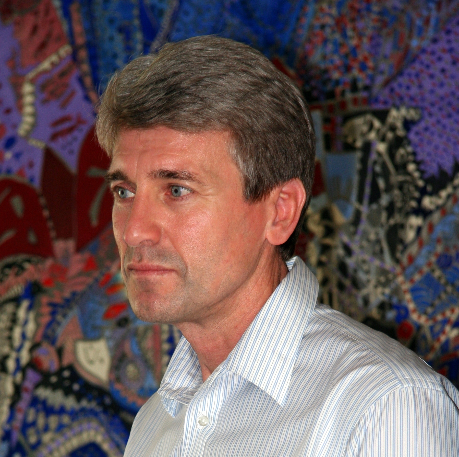 Minneapolis Mayor Raymond Thomas Rybak, Jr.